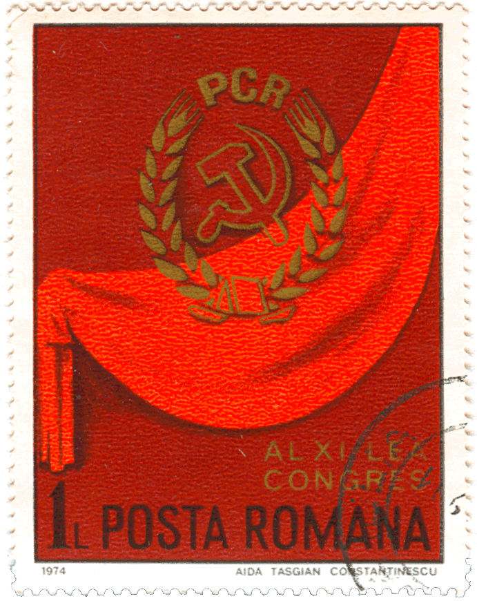 XIth Congress of the Communist Party of Romania